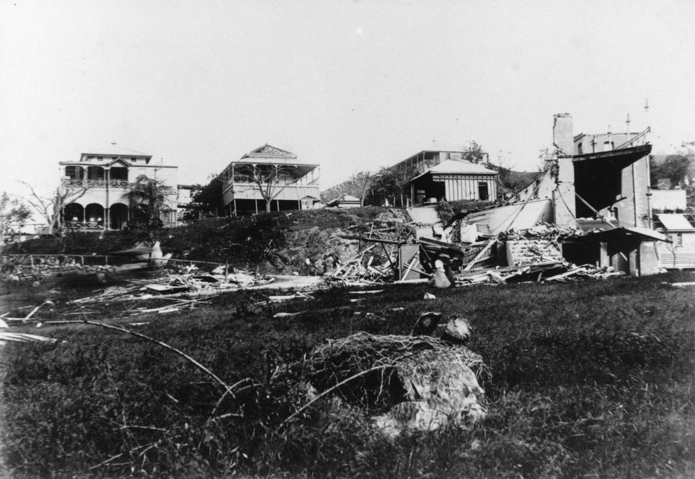 Destruction of the Townsville Hospital's Harvey Ward caused by Cyclone 'Leonta', 1903. Cyclone 'Leonta' struck Townsville on March 9th, 1903. There are three houses visible in the background. The image is taken from the corner of Eyre and Gregory Streets near the old jail. [Description supplied with photograph].